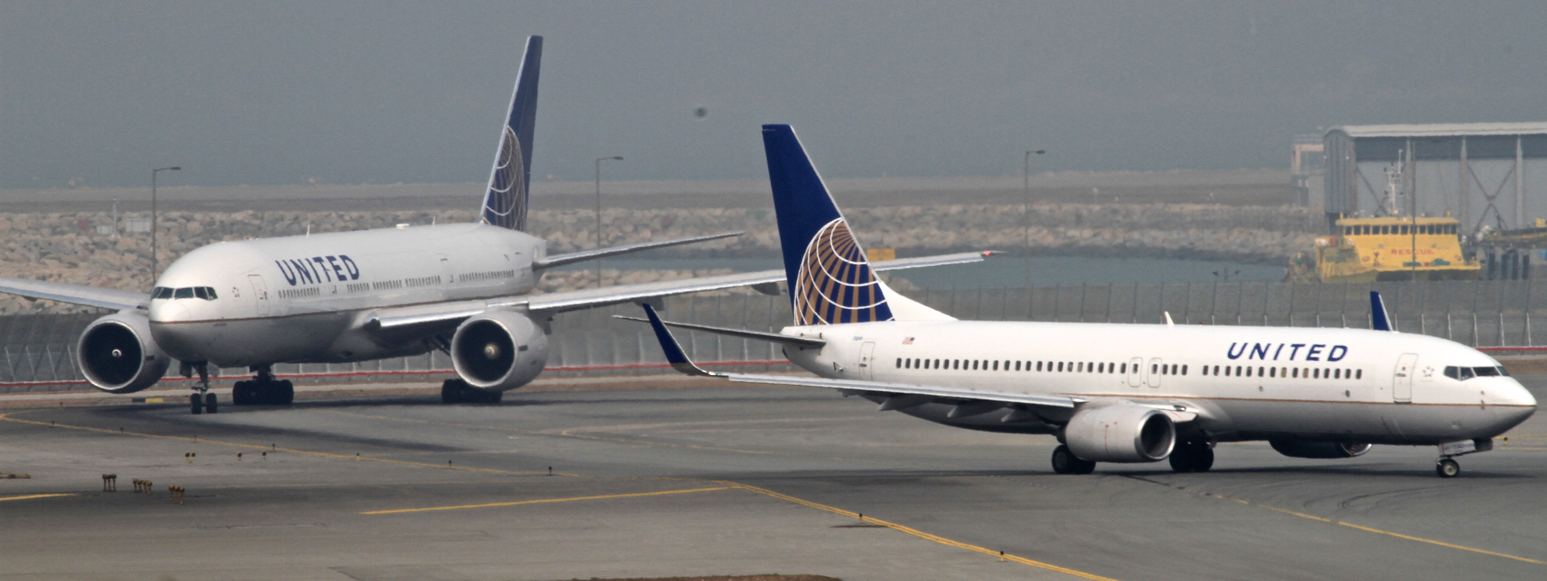 Untitled